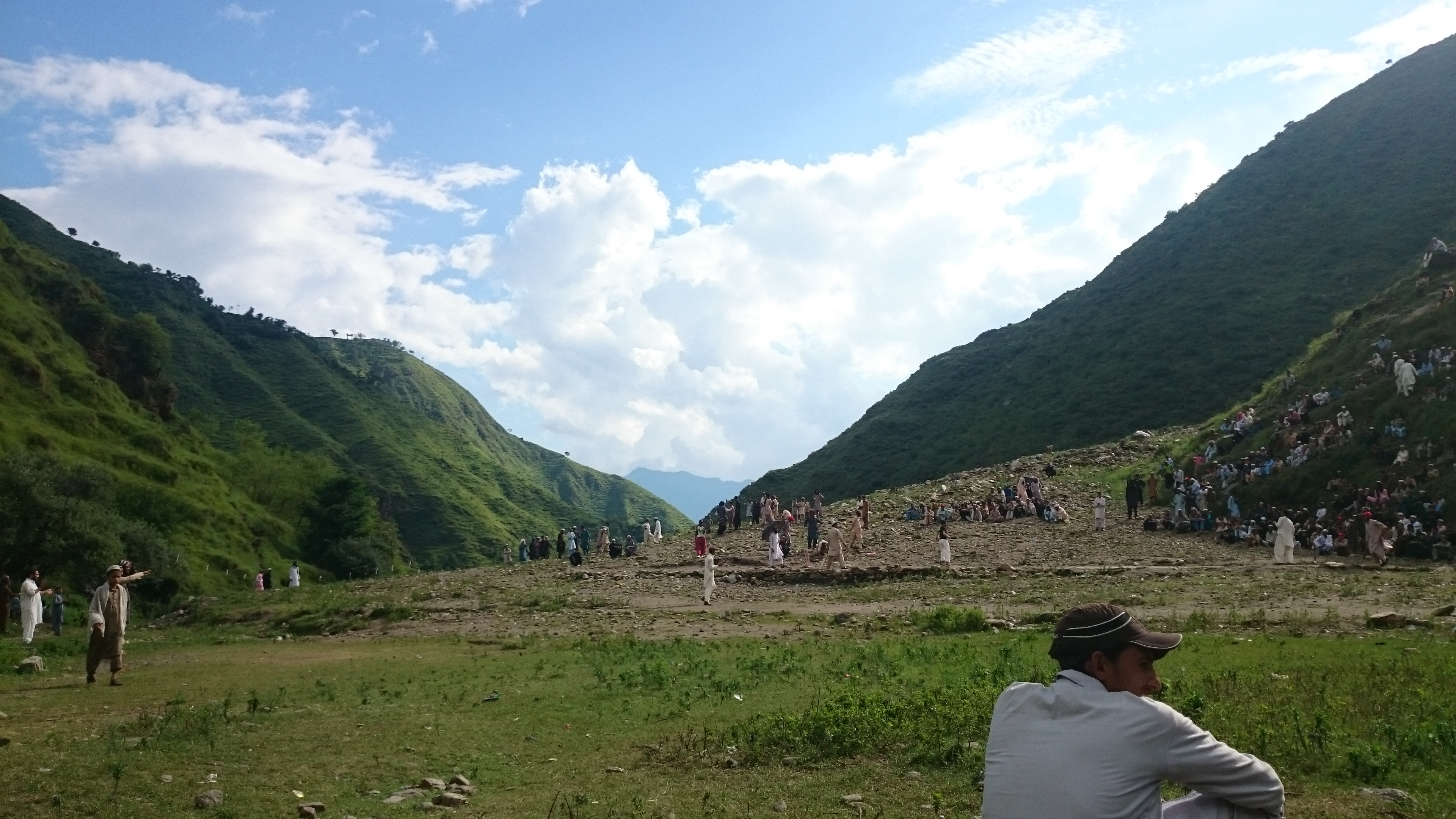 a photo taken in kala dhaka a village in khyber paktoon khuwa pakistan.